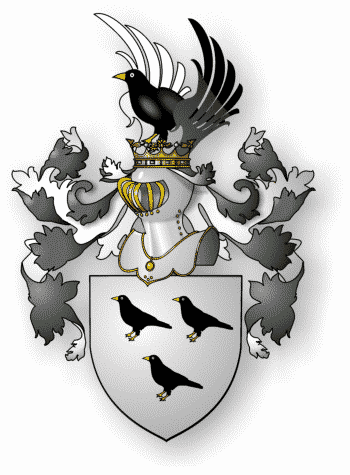 CoA of family Borch